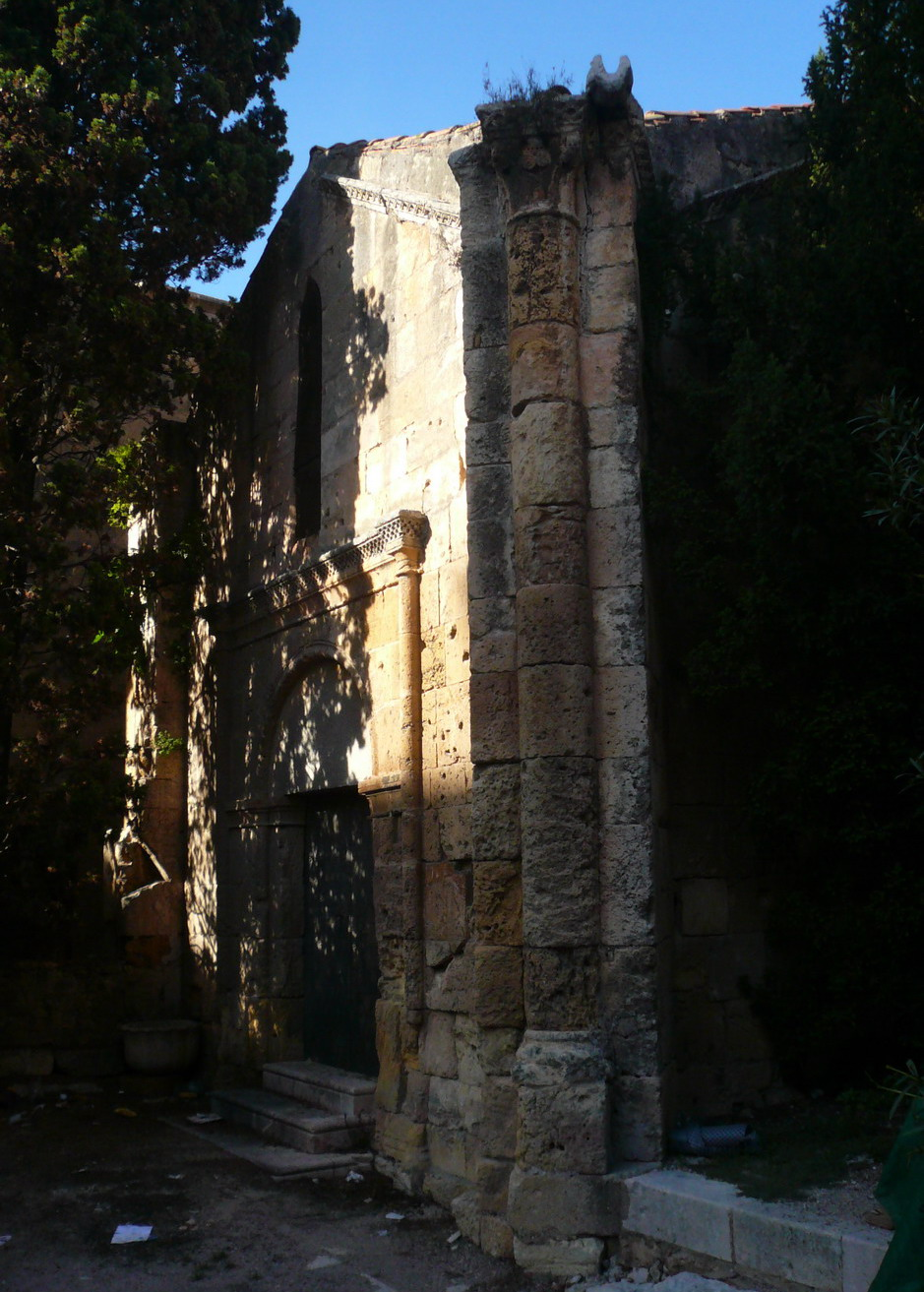 Santa Tecla la Vella, Tarragona.